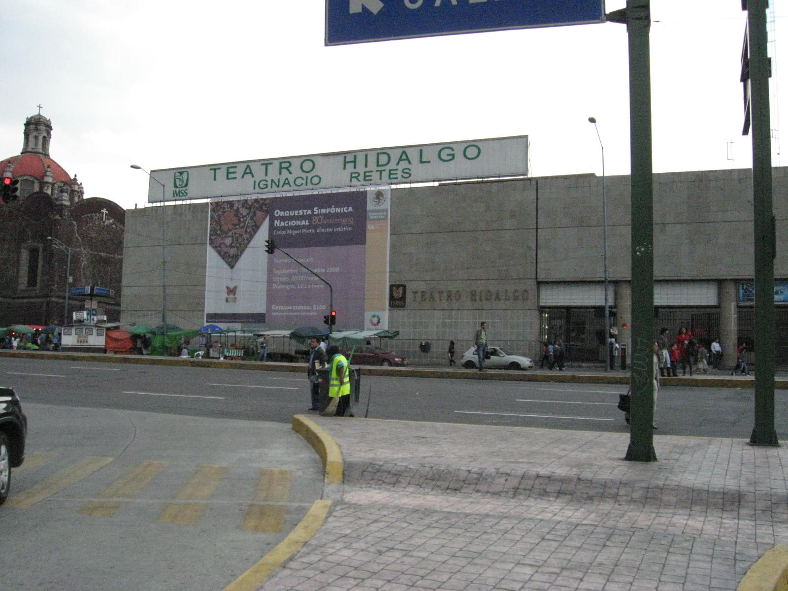 The "Teatro Hidalgo" (Hidalgo Theatre) located on Hidalgo Street just north of the Palace of Fine Arts (Bellas Artes) in Mexico City.